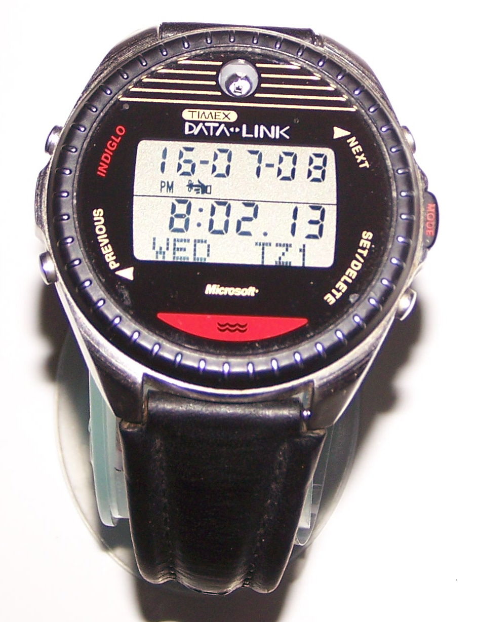 Please see filename